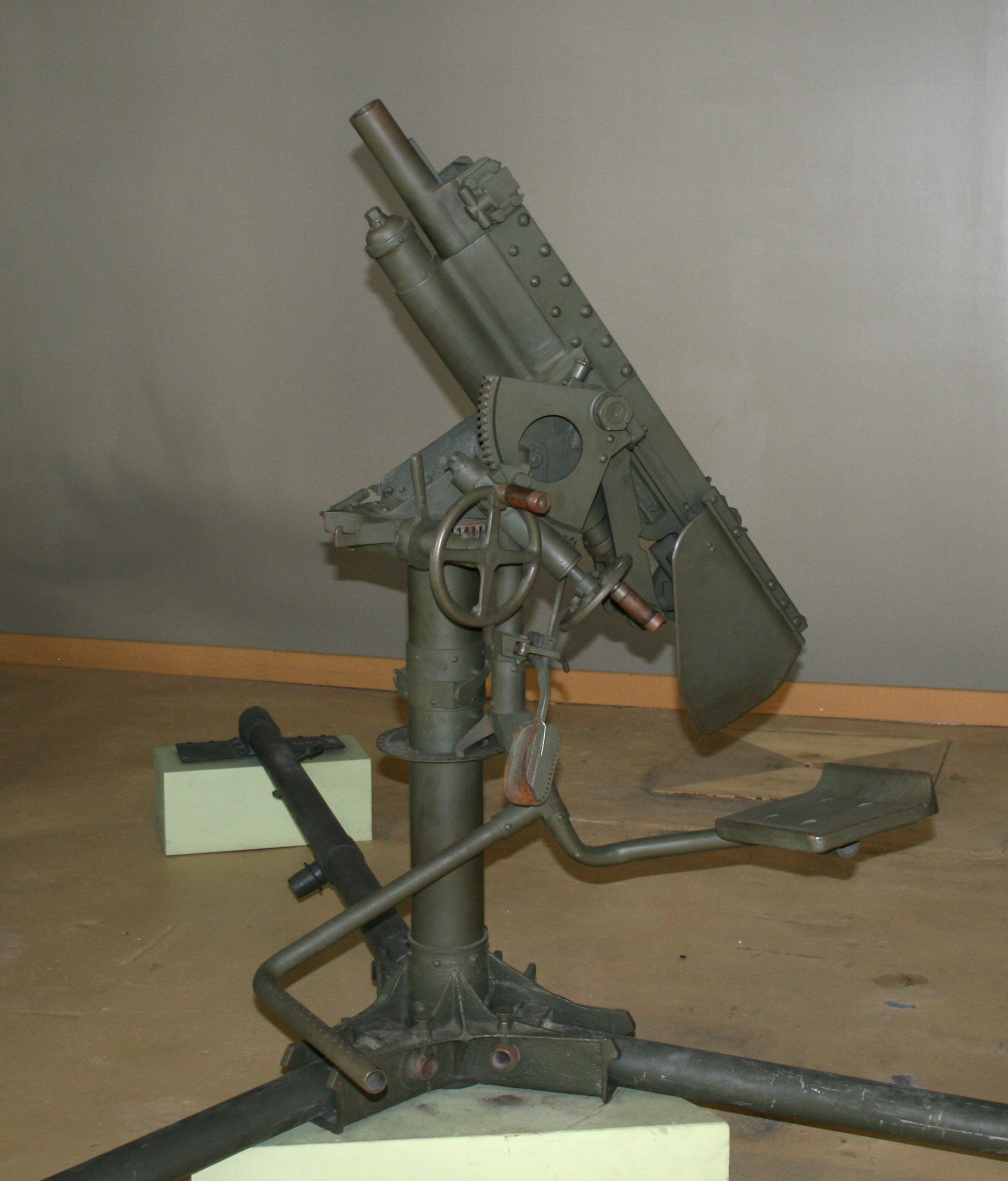 Sockelflak - German AA cannon, 3,7 cm, 1917-18. Was originally known as Luftschiff Flak when it was tried for arming airships. Photo taken by Szilas in the Royal Museum of the Armed Forces and Military History, Brussels